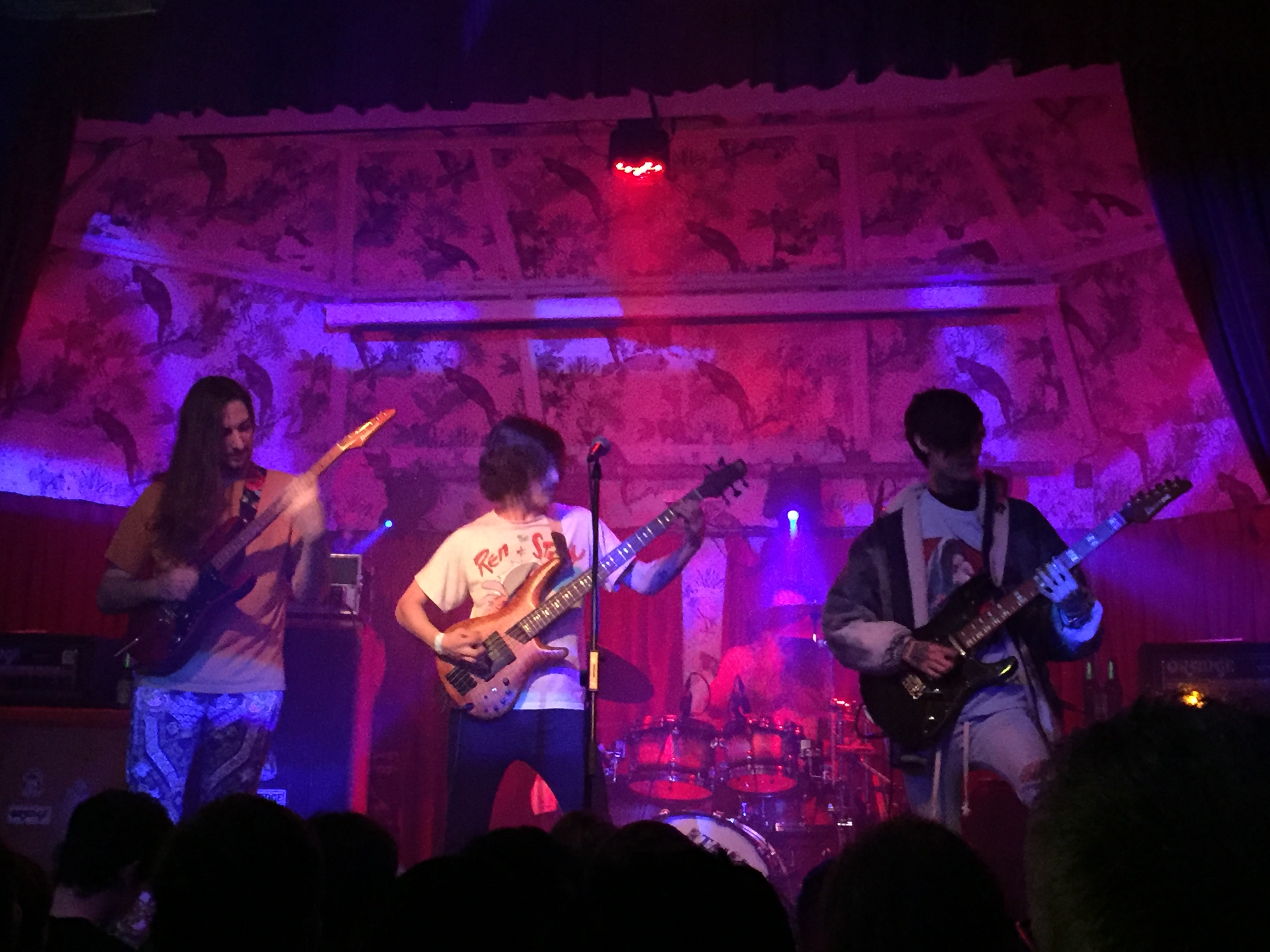 Polyphia playing at the Deaf Institute in Manchester, UK.